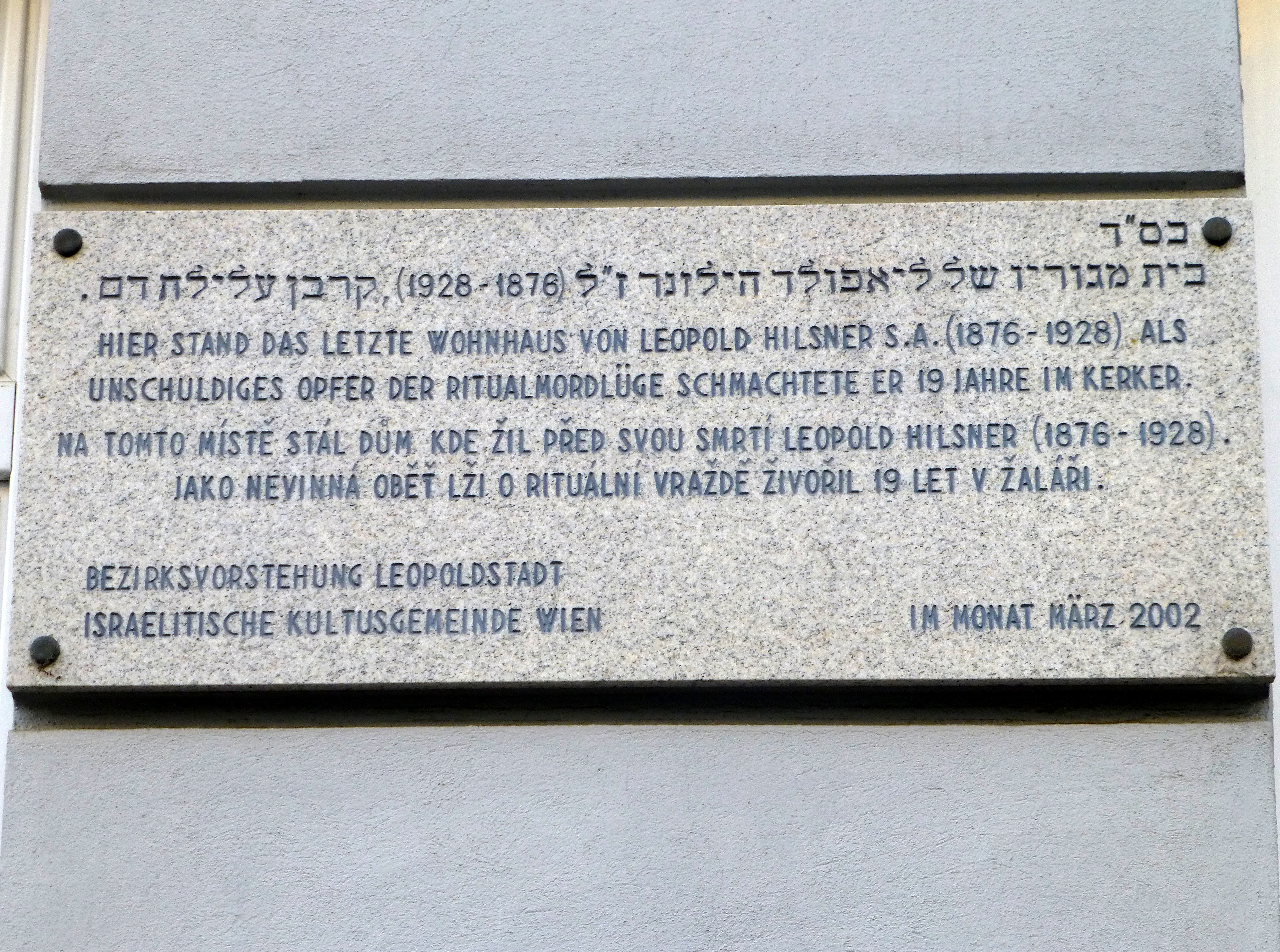 Memorial for Leopold Hilsner. Vienna, Austria, Obere Donaustraße Nr. 4.